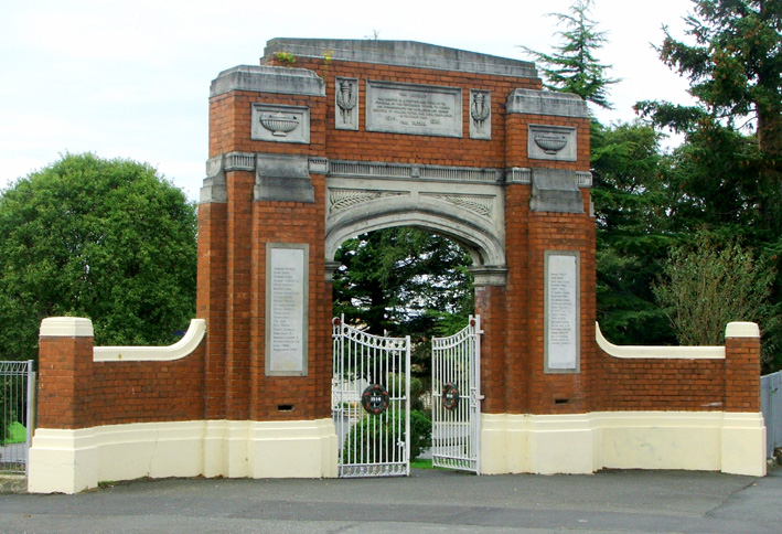 The gates of Caversham School, Dunedin, New Zealand, serve as a war memorial. Photograph by james dignan (User:Grutness), March 28, 2009.